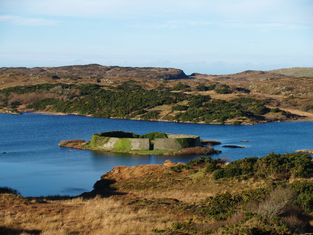 Doon Fort Rosbeg. This fort was built by the O'Boyle family in approx. 1500 a.d. for protection from neighbouring tribes. It may be accessed by boat which is available nearby.